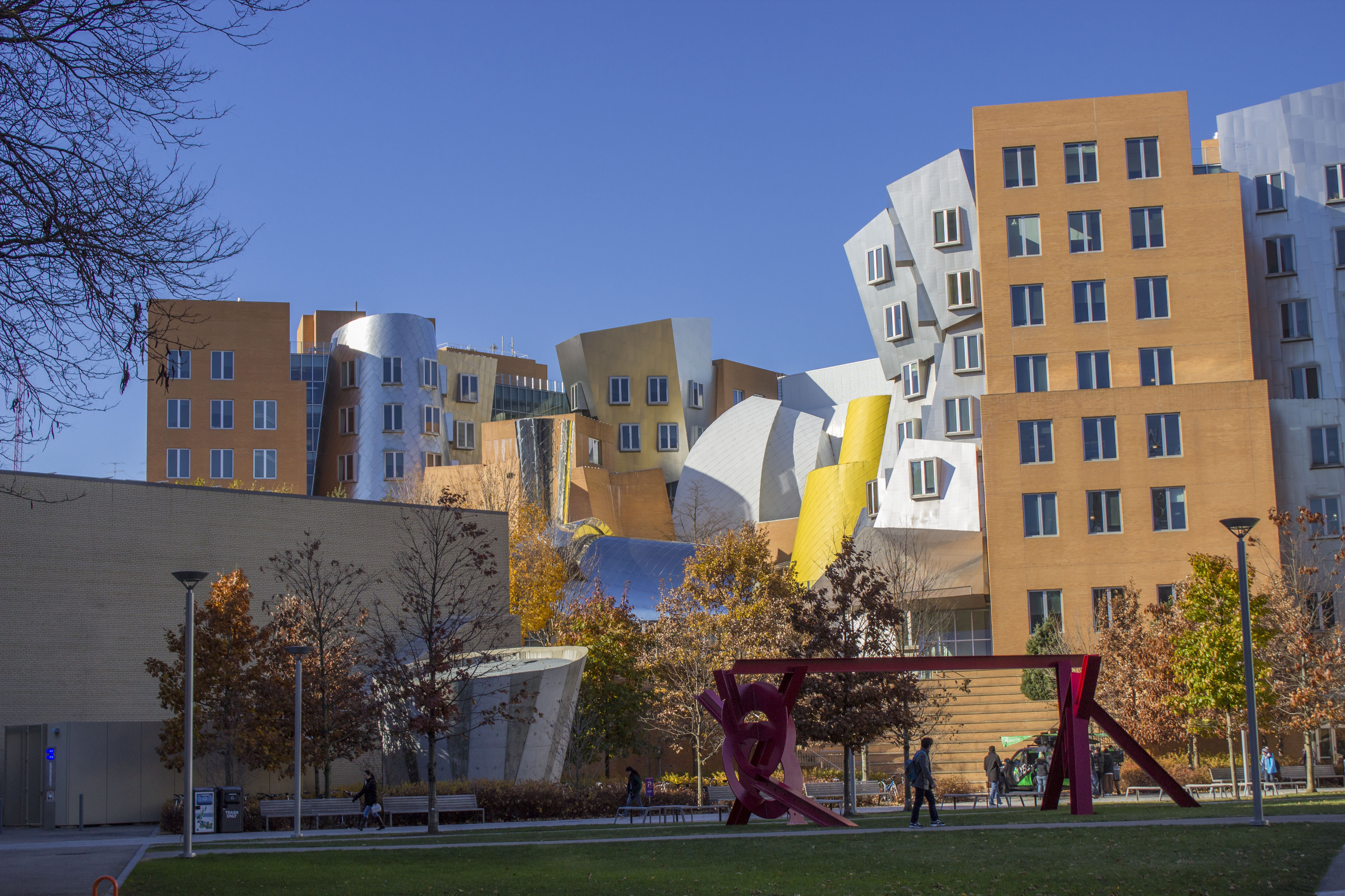 MIT campus